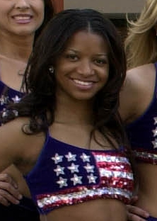 Michaé Holloman, Miss Maryland USA 2006 and Washington Redskins cheerleader